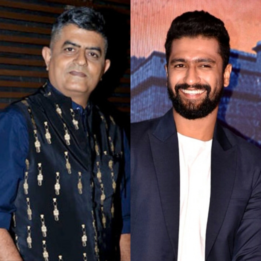 Indian actors Gajraj Rao and Vicky Kaushal (montage to illustrate their "tie" win of Filmfare Award)